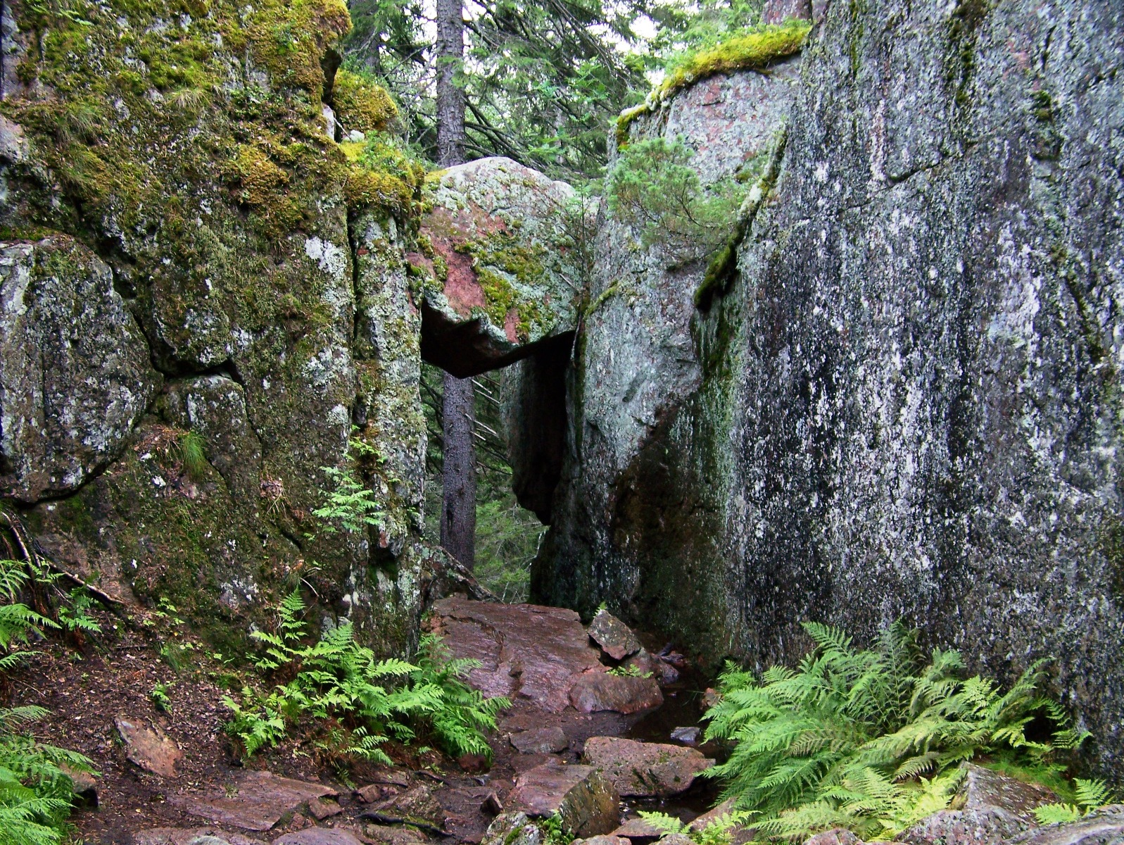 Short stone corridor at Skuleskogen National Park